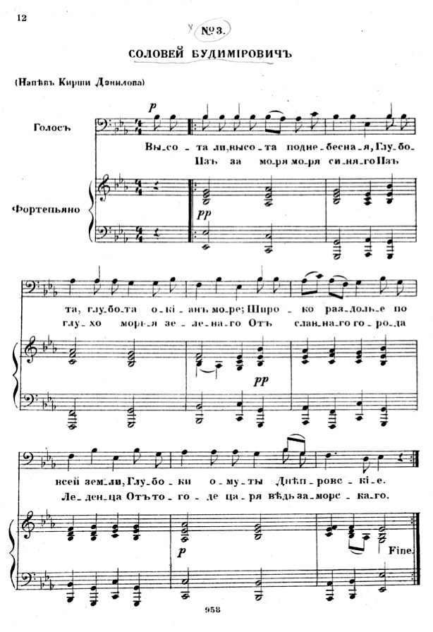 Rimsky-Korsakov 03a Solovei Budivirovich